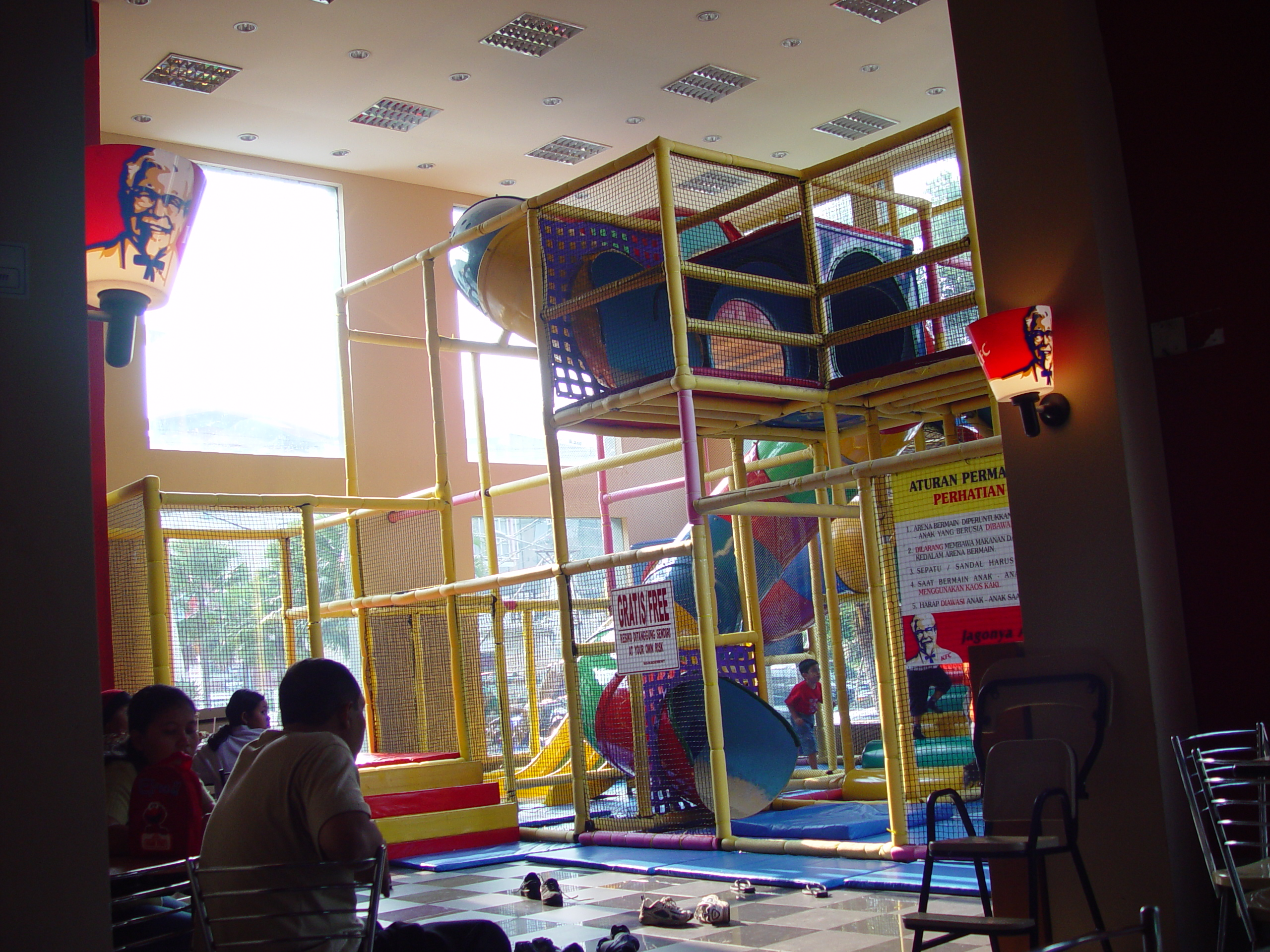 Mall cultural in Jakarta, Indonesia.